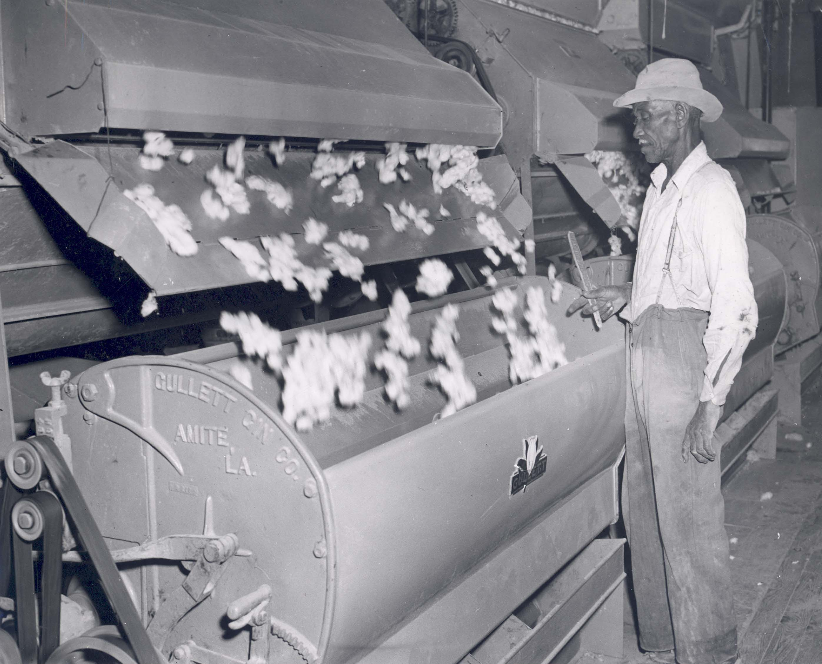 Negro worker at a Cotton Gin, ca 1940's.